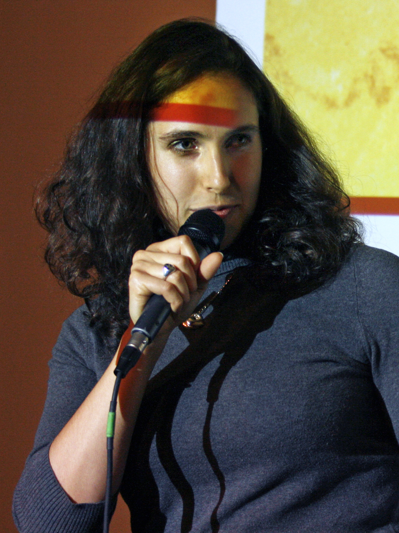 Comedian Megan Amram performs at the Meltdown Show Wednesday night.